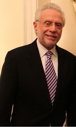 A photograph of Wolf Blitzer in 2011.